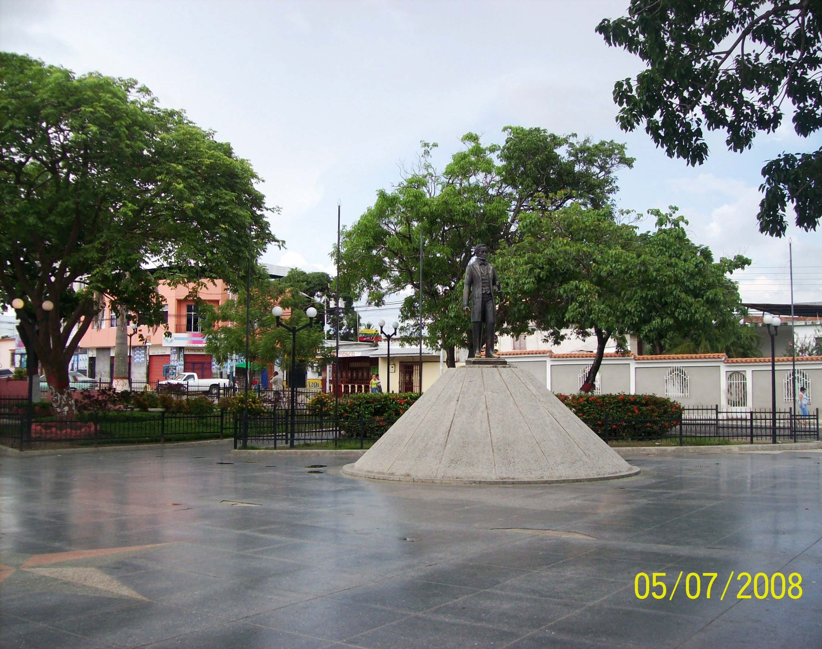 Bolívar square of Chivacoa, Capital of the Municipality Bruzual, Yaracuy state. Venezuela